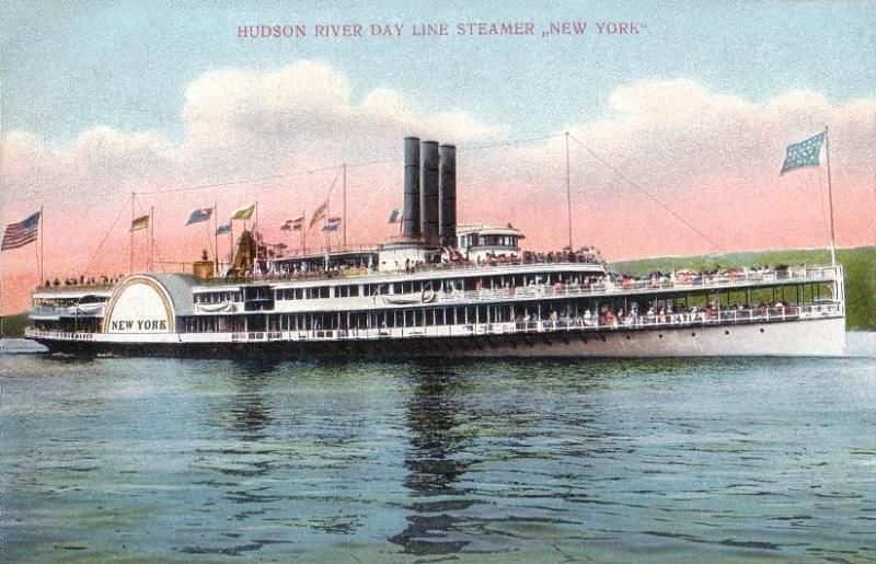 Hudson River Day Line Steamer New York; from a c. 1908 postcard. Completed in 1887, its iron hull measured 300 feet in length to accommodate 1,500 passengers. It was claimed to be one of the fastest in the world. New York was destroyed by fire in 1908 while undergoing minor repairs after colliding with a tug in New York harbor.